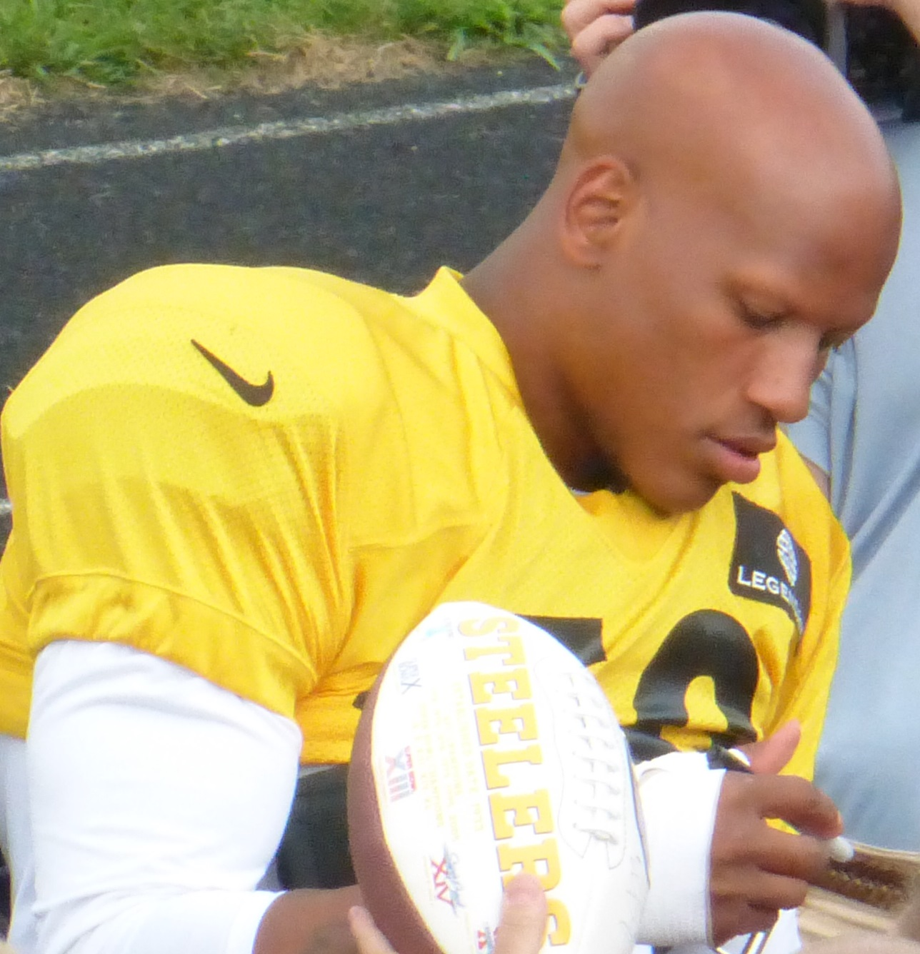 Ryan Shazier in 2014 Pittsburgh Steelers training camp